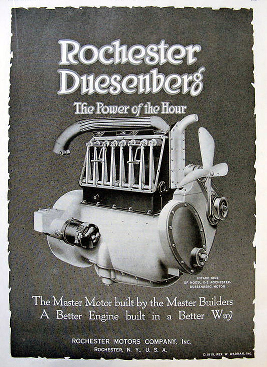 The Rochester Engine Co. of Rochester, NY acquired rights and tools of the Duesenberg "Walking Beam" G-series racing engine in 1919. Fred Duesenberg helped to adapt them for street use, and it was the powerplant for some minor luxury makes like Roamer, ReVere, Biddle, or Argonne. Pictured is the Model G-3 4 cylinder, 8 valve engine with 350.5 c.i. displacement